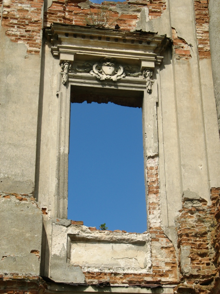 Palace of Sapieha (Ruzhany), Belarus